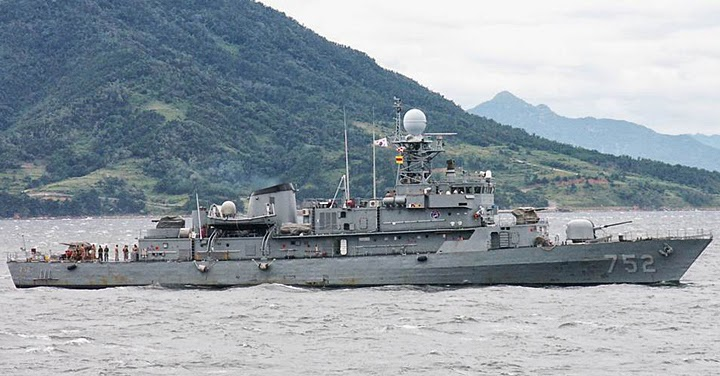 ROKS Su Won (752) corvette belonging to the Donghae class, second ship of its class